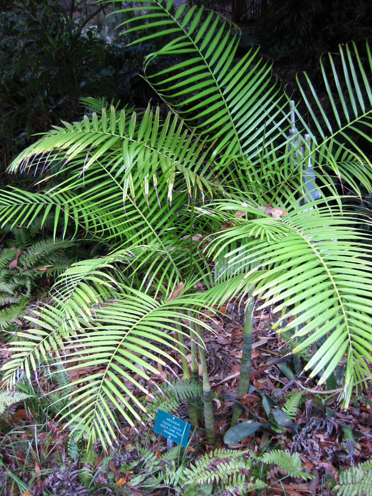 Photographed Mildred E. Mathias Botanical Garden at UCLA (Los Angeles, California) in November